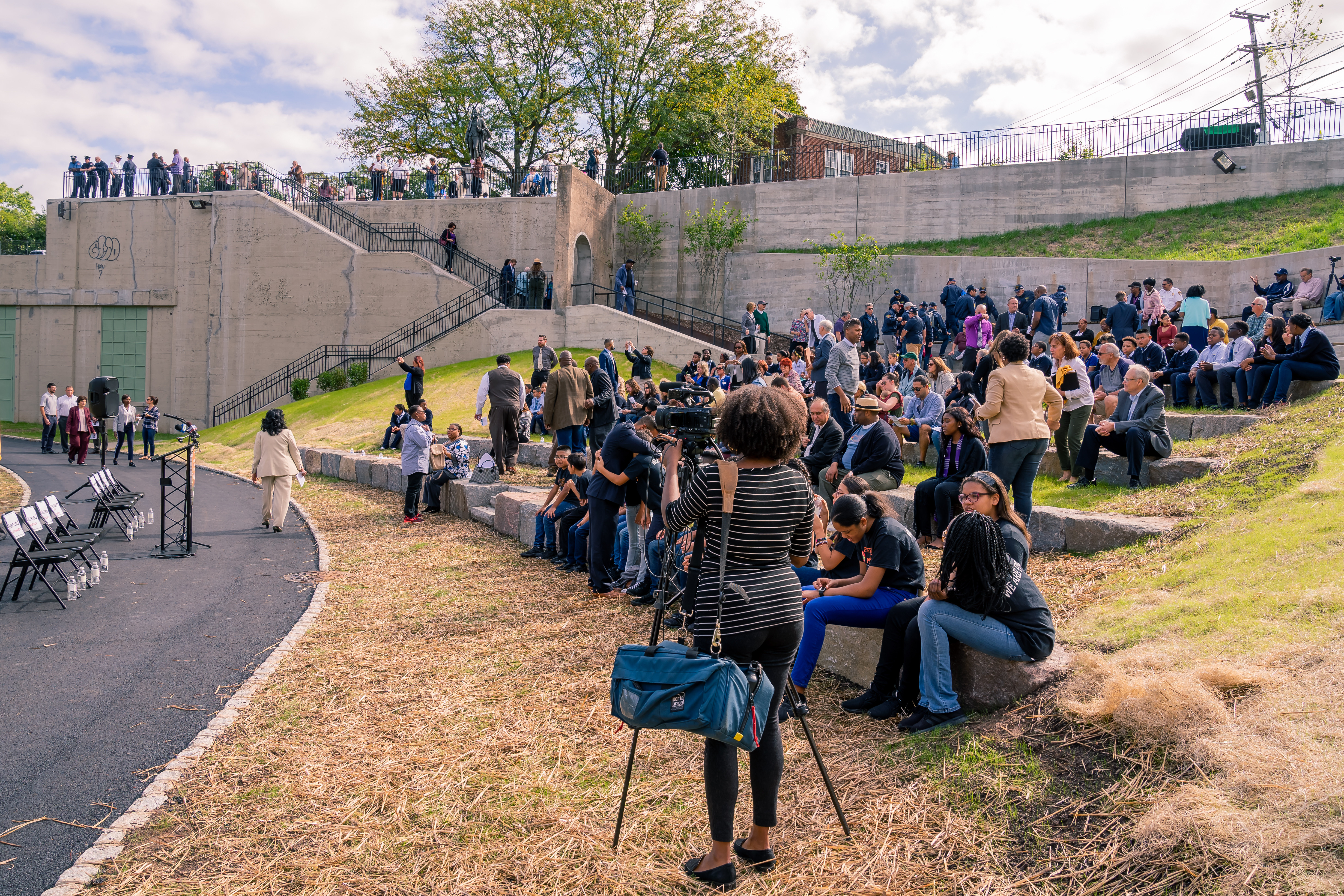 in october 2019, the falls opened a new amphitheater.